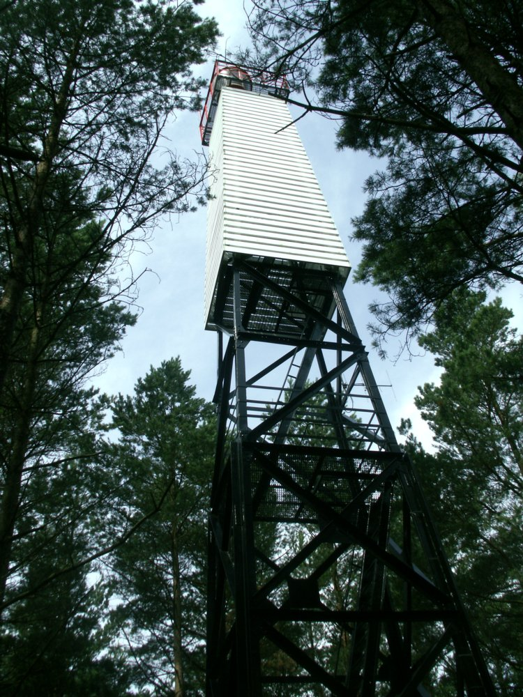 Lighthouse in Juodkrantė, Lithuania